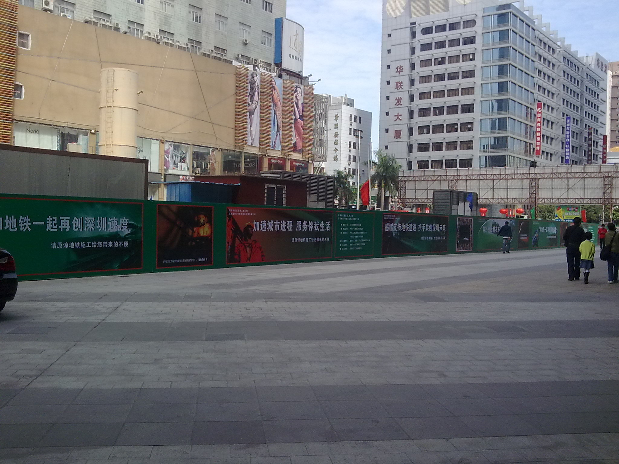 Hua Qiang Bei Station Of SZMTR